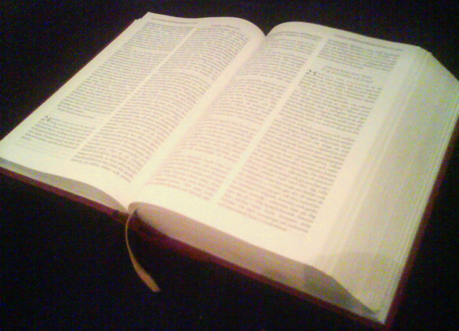 The Bible